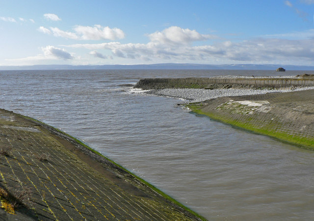 Mouth of the River Thaw. A view of the river mouth where it flows into the Bristol Channel. The effectiveness of its straightening can be easily seen here in this high tide view. In the distance the coast of Somerset, rising to Exmoor.